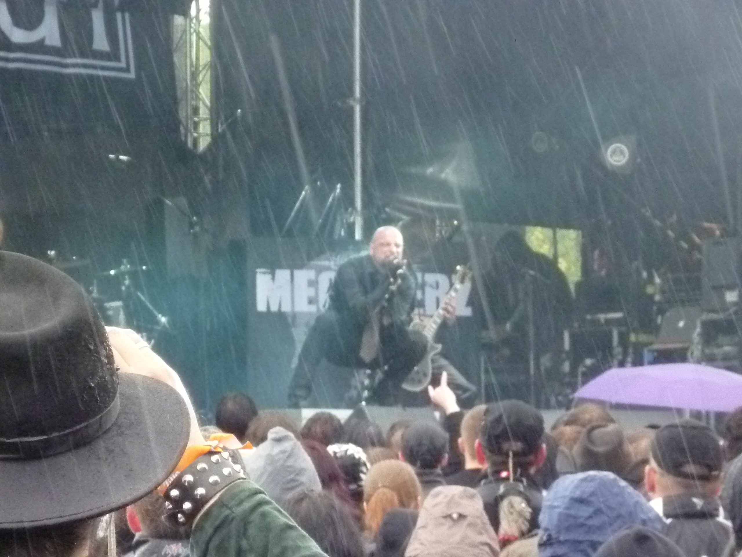 Megaherz playing at the Hexentanz-Festival 2010